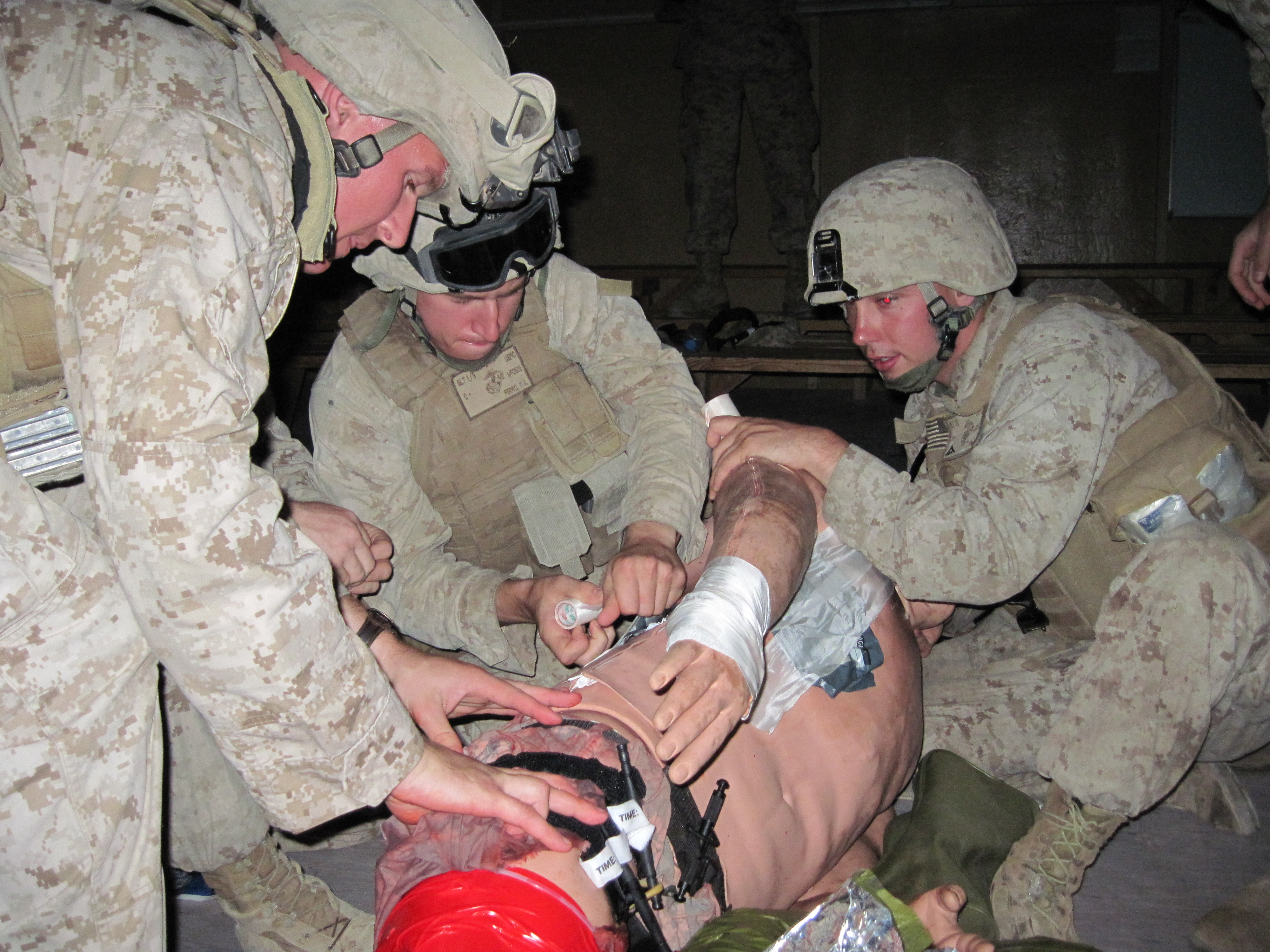 Marines attached to Combine Anti-Armor Team Platoon, Team 2, Battalion Landing Team 1st Battalion, 9th Marine Regiment, 24th Marine Expeditionary Unit, put skills learned during a Tactical Combat Casualty Care class to the test on life-like training dummies May 16. During TCCC Marines learned steps necessary to preserve life under combat conditions to better provide care for one another if ever required.